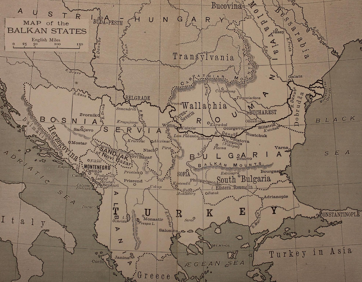 Map of the Balkan States (Miller, William, 1896)